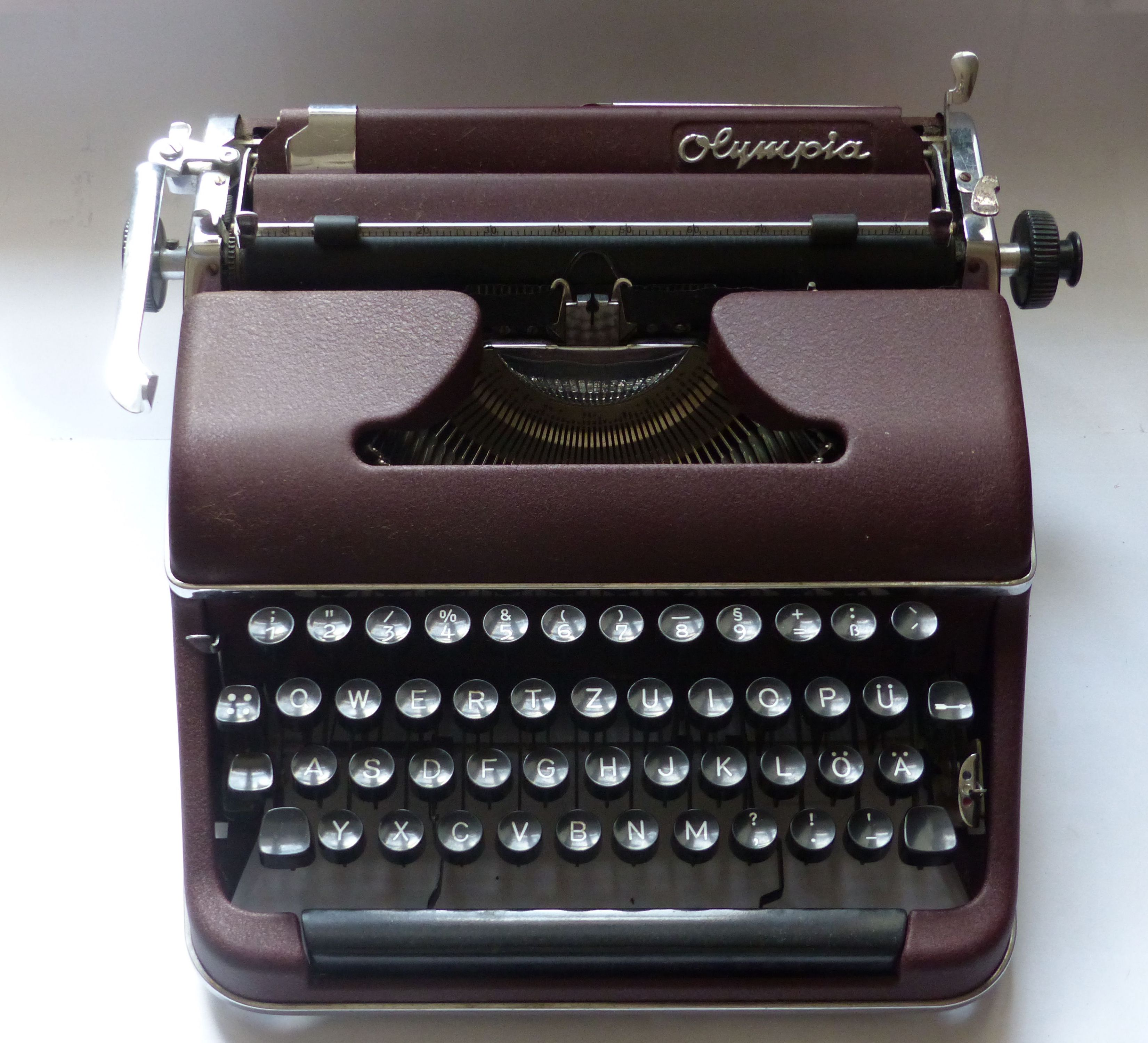 Olympia SM2 typewriter from 1951 with the serial number 105542.